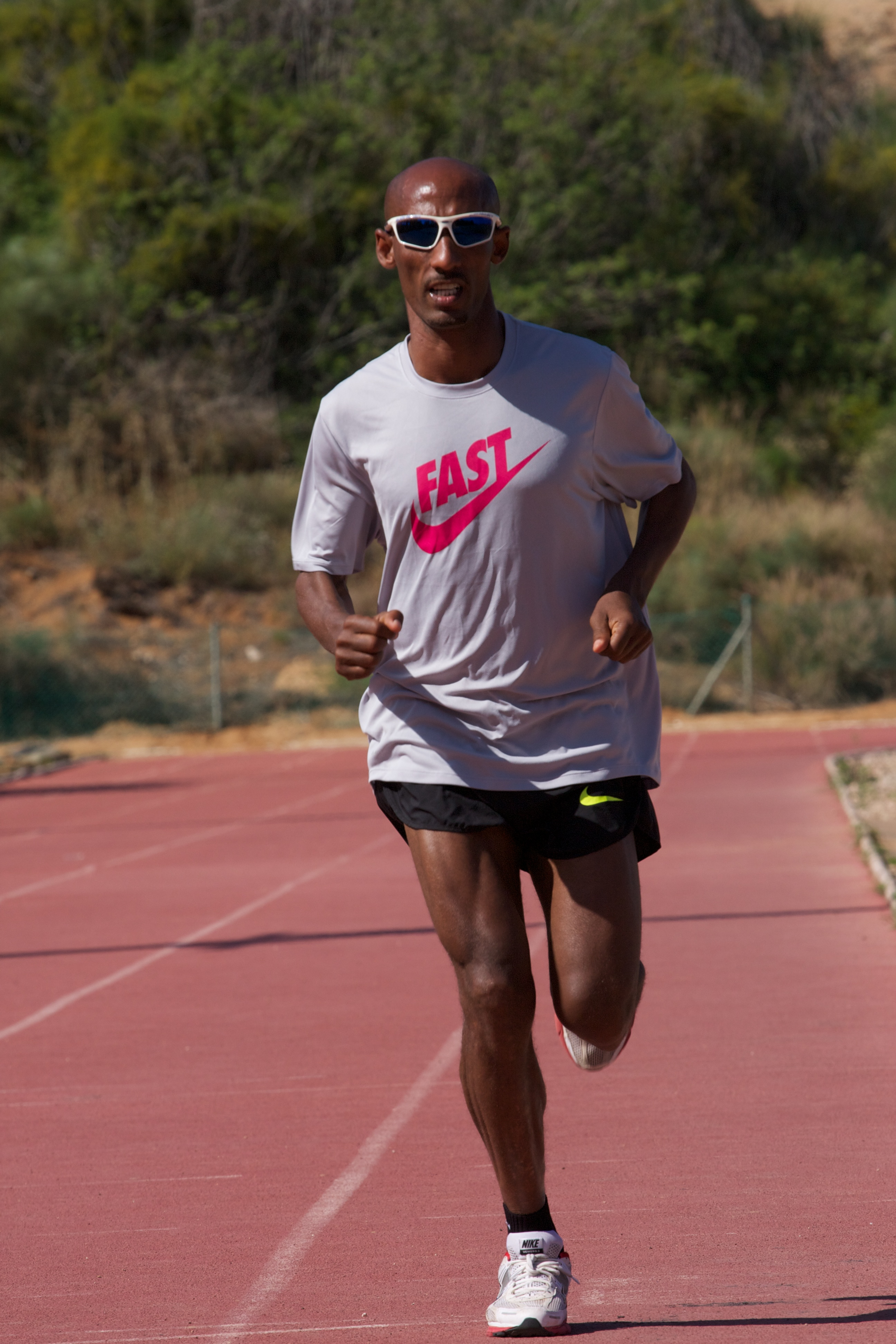 Zohar Zimro running at the training camp.